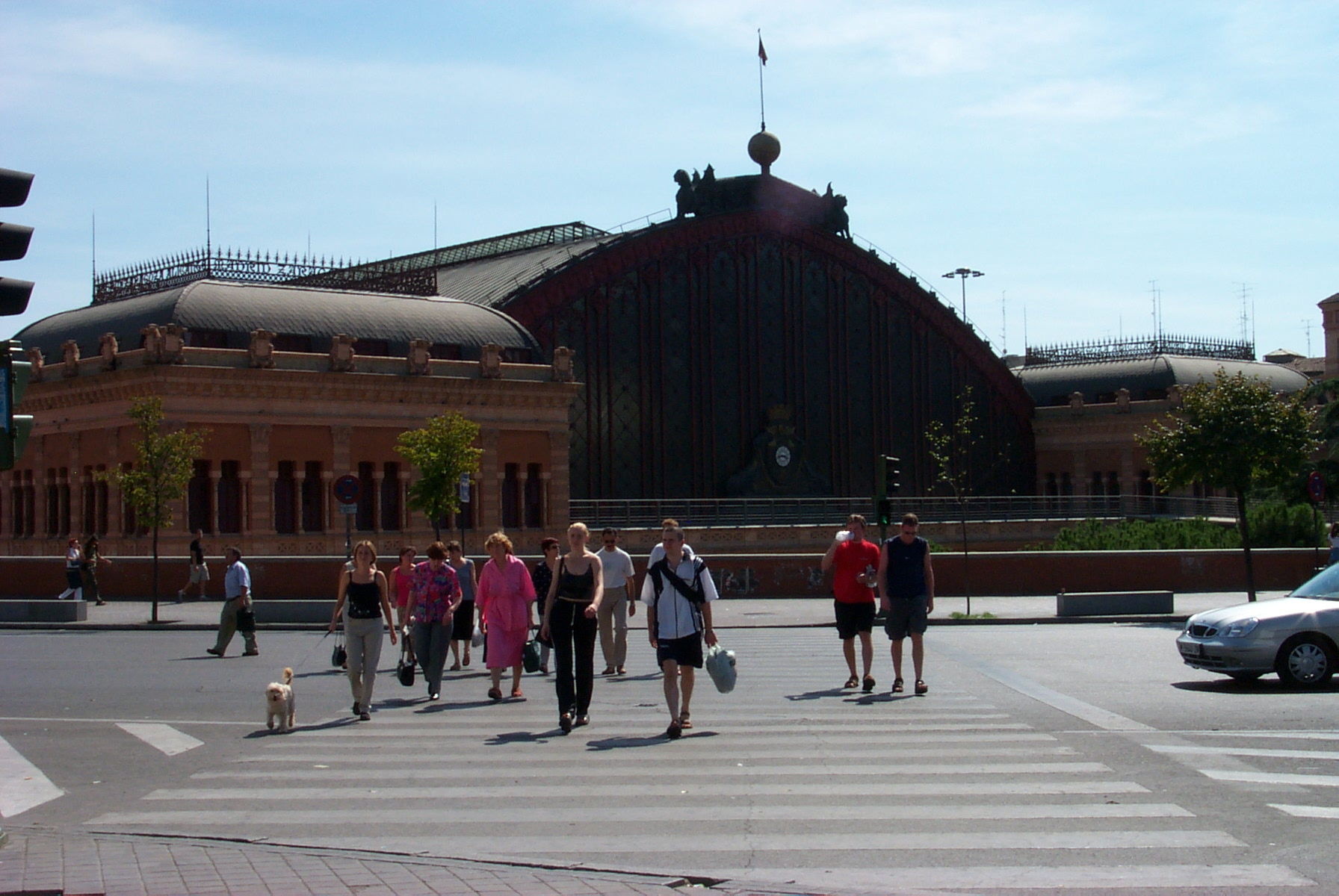 Image of Madrid Atocha station exterior taken by Juan García, at 2001-09-09.